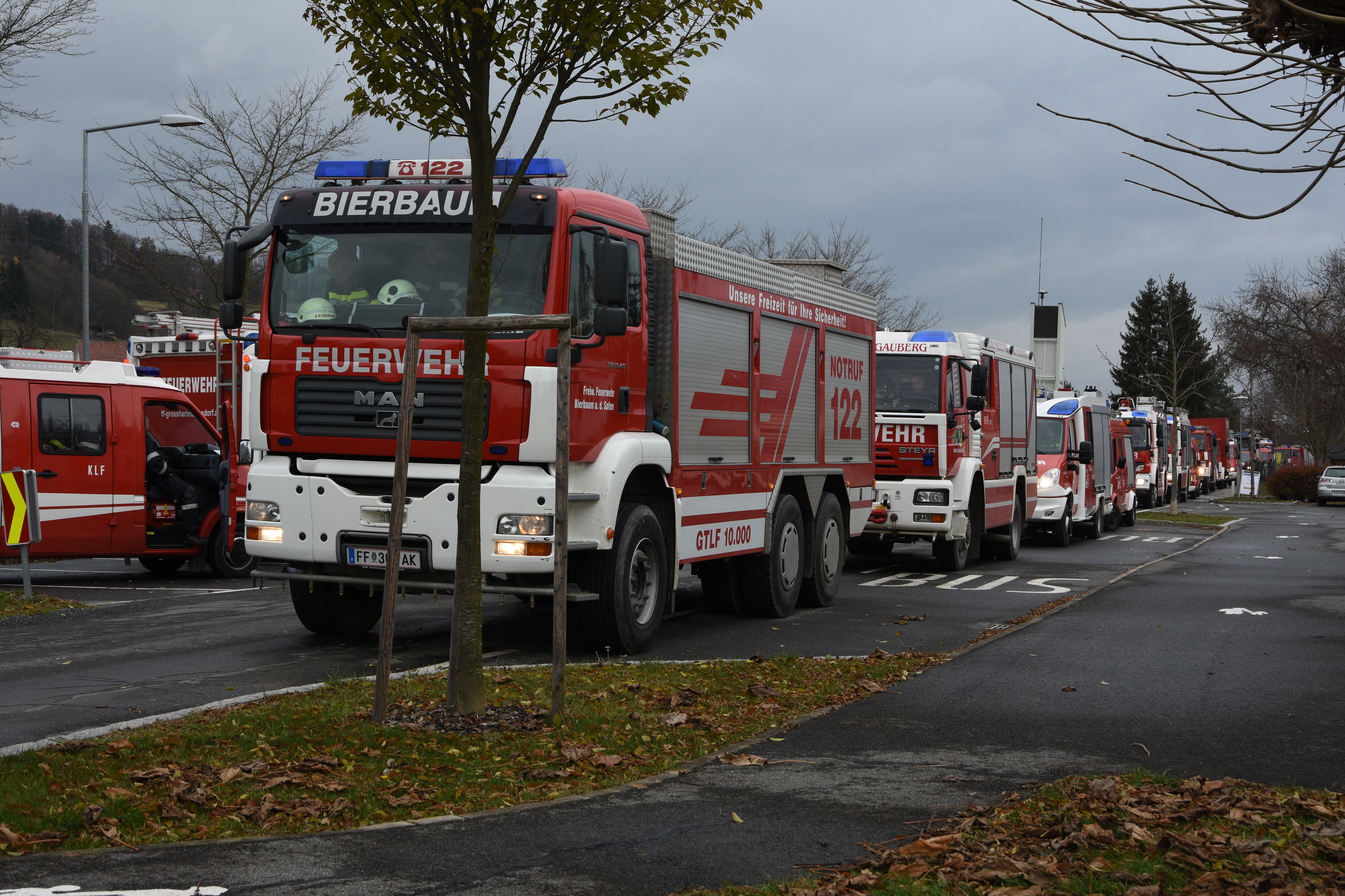 KHD Training BFV Fürstenfeld